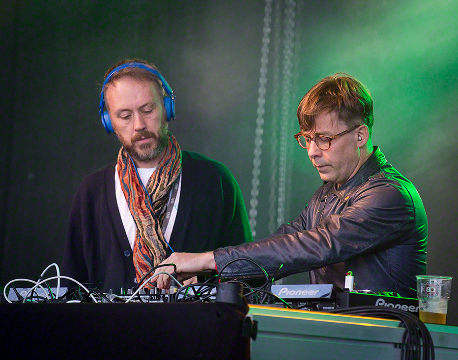 Basement Jaxx performs at Quart Festival in Kristiansand on 28. June 2016. Lineup:Simon Ratcliffe (Disc jockey)Felix Buxton (Disc jockey)